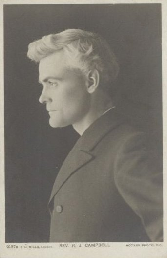 Postcard of Reginald John Campbell